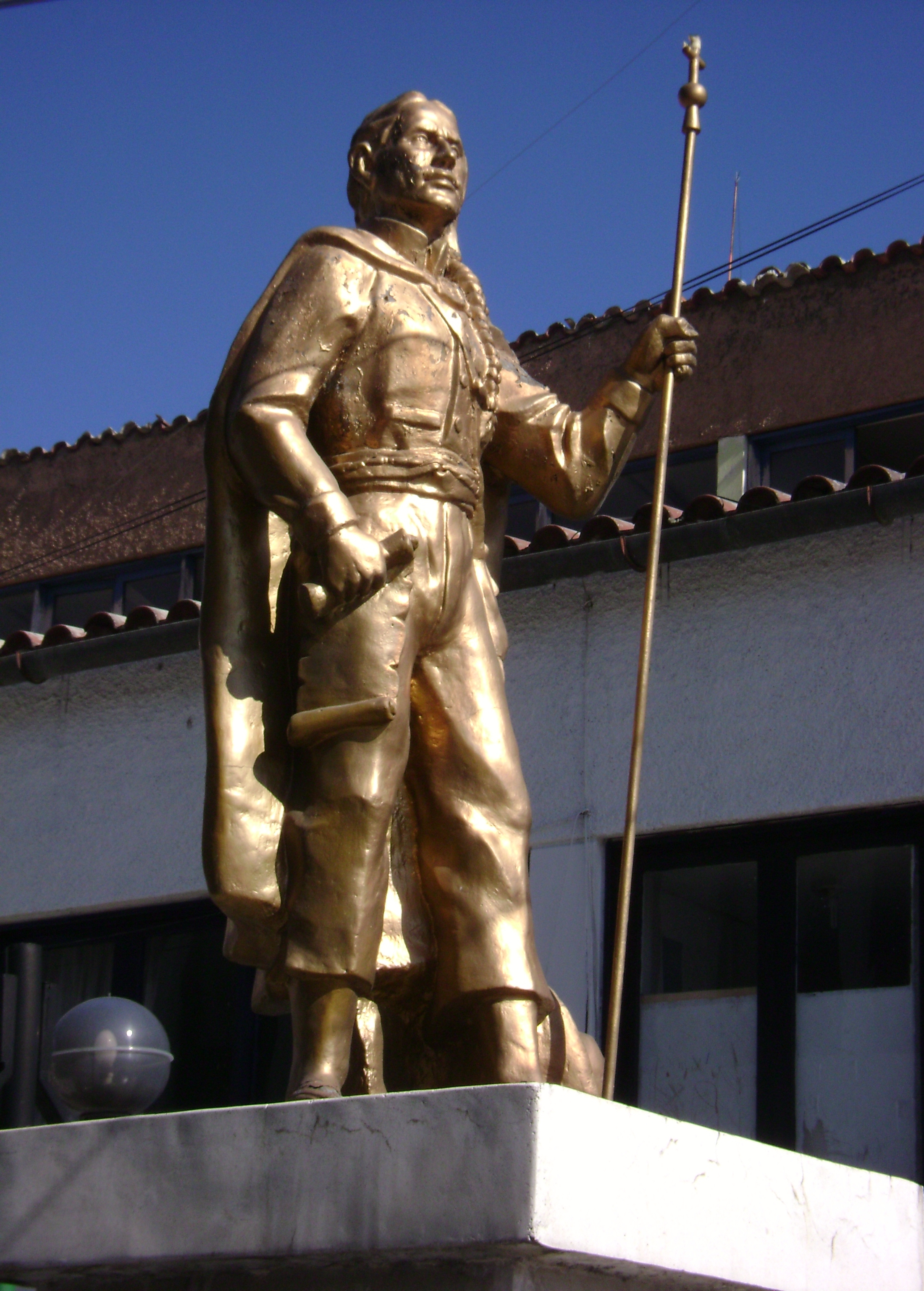 Pedro Pablo Atusparia, monument located in the city of Huaraz, Ancash-Peru